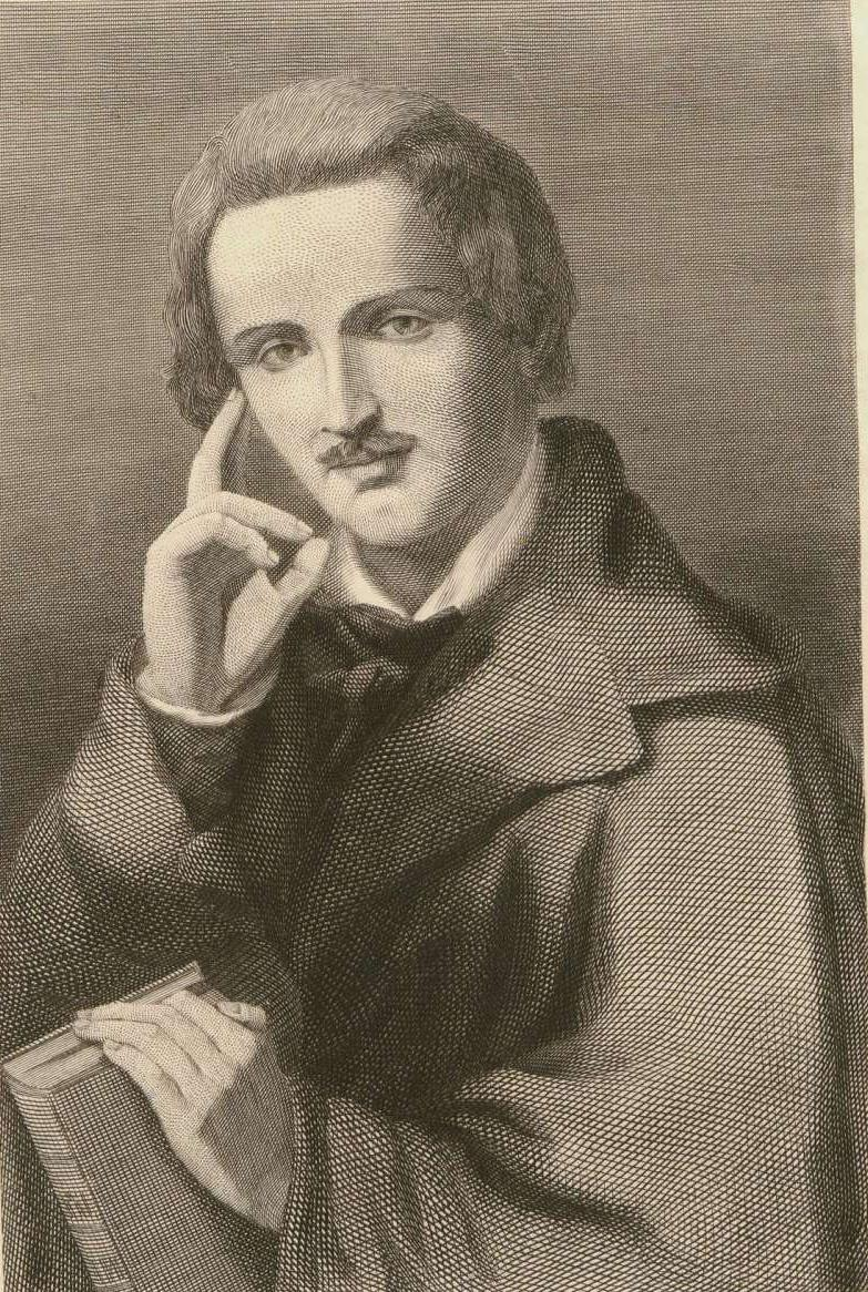 Portrait of Stefan Florian Garczyński